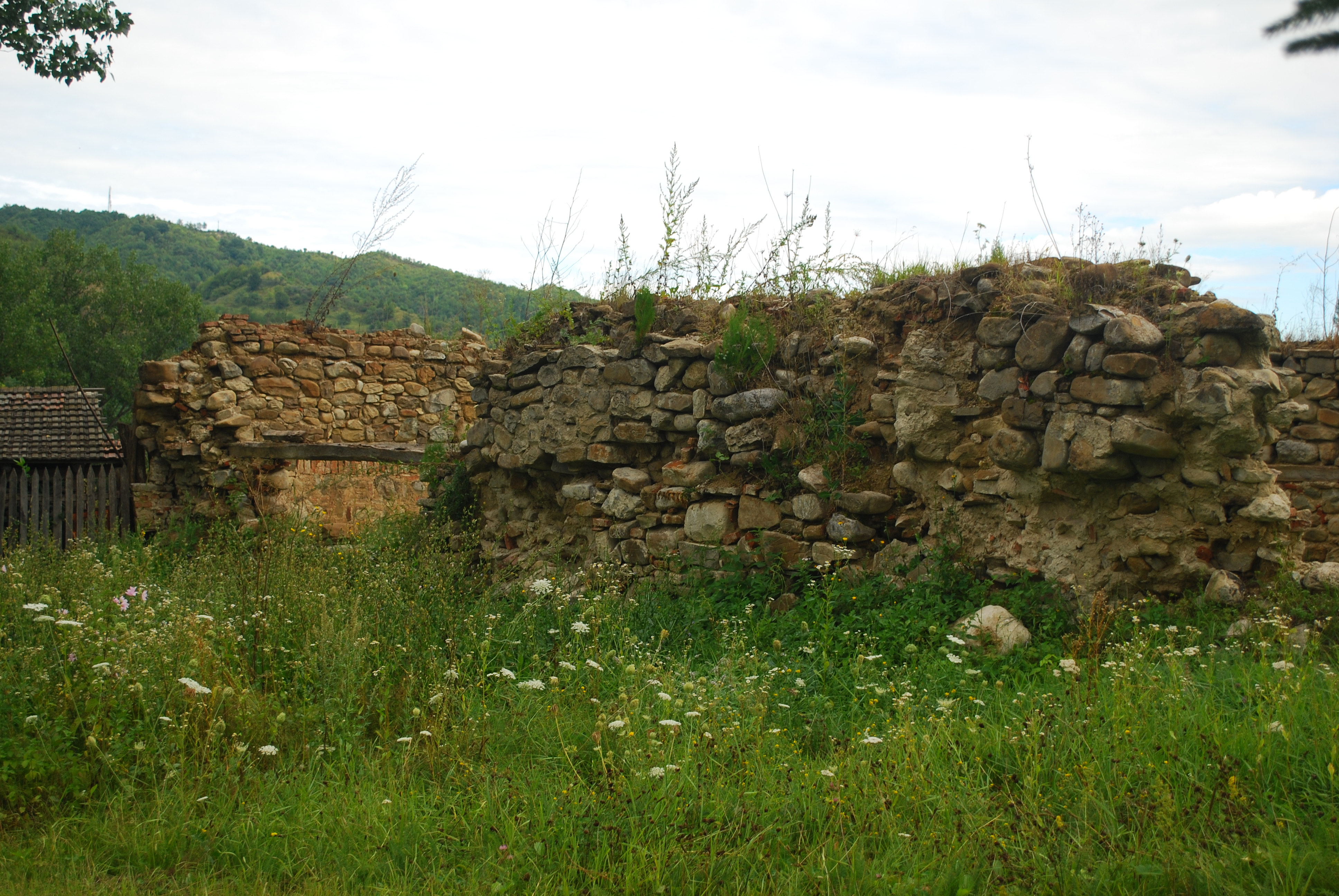 Ruins of the parish house from the Vintilă Vodă monastery in Vintilă Vodă, Buzău County, RomaniaRomână: Ruinele casei parohiale de la mănăstirea Vintilă Vodă, județul Buzău, România 02